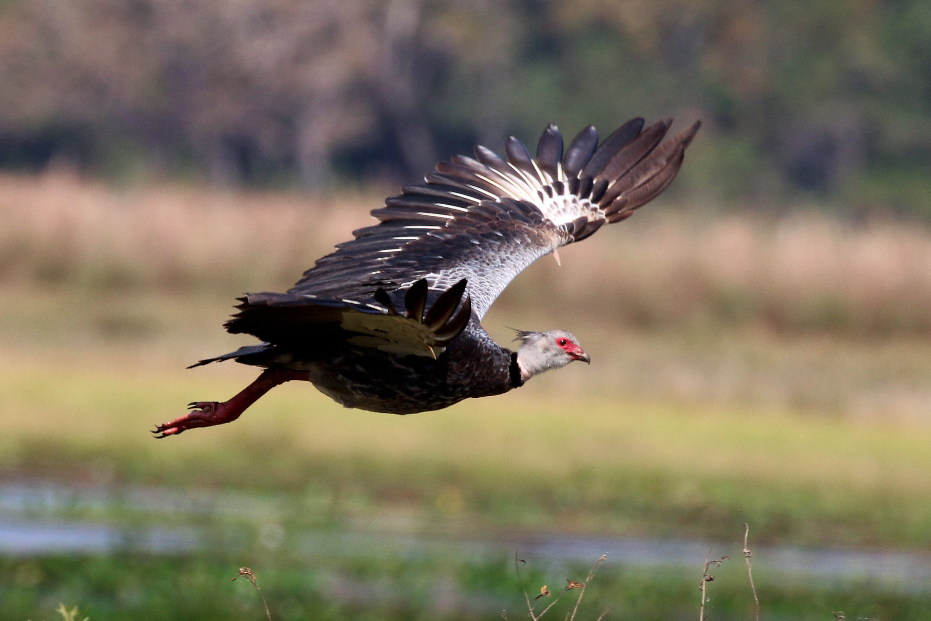 Southern screamer (Chauna torquata) in flight, the Pantanal, Brazil